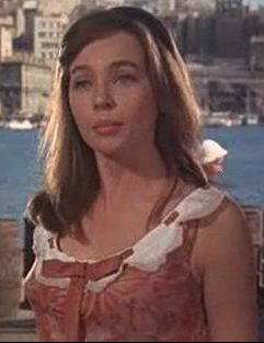 Cropped screenshot of Leslie Caron from the trailer for the film Fanny